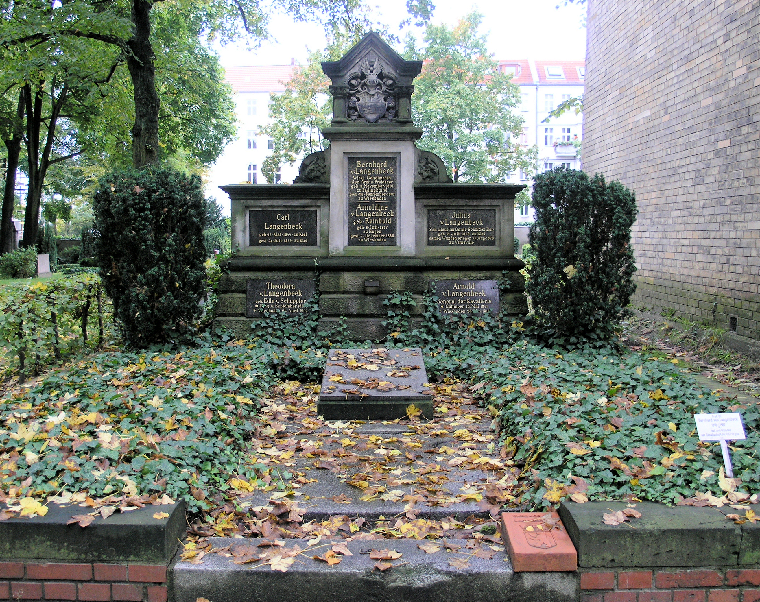 "Ehrengrab" (grave of honor), Bernhard von Langenbeck, Großgörschenstraße 12, Berlin-Schöneberg, Germany Koordinate:52°29′28″N 13°22′2″E / 52.49111°N 13.36722°E